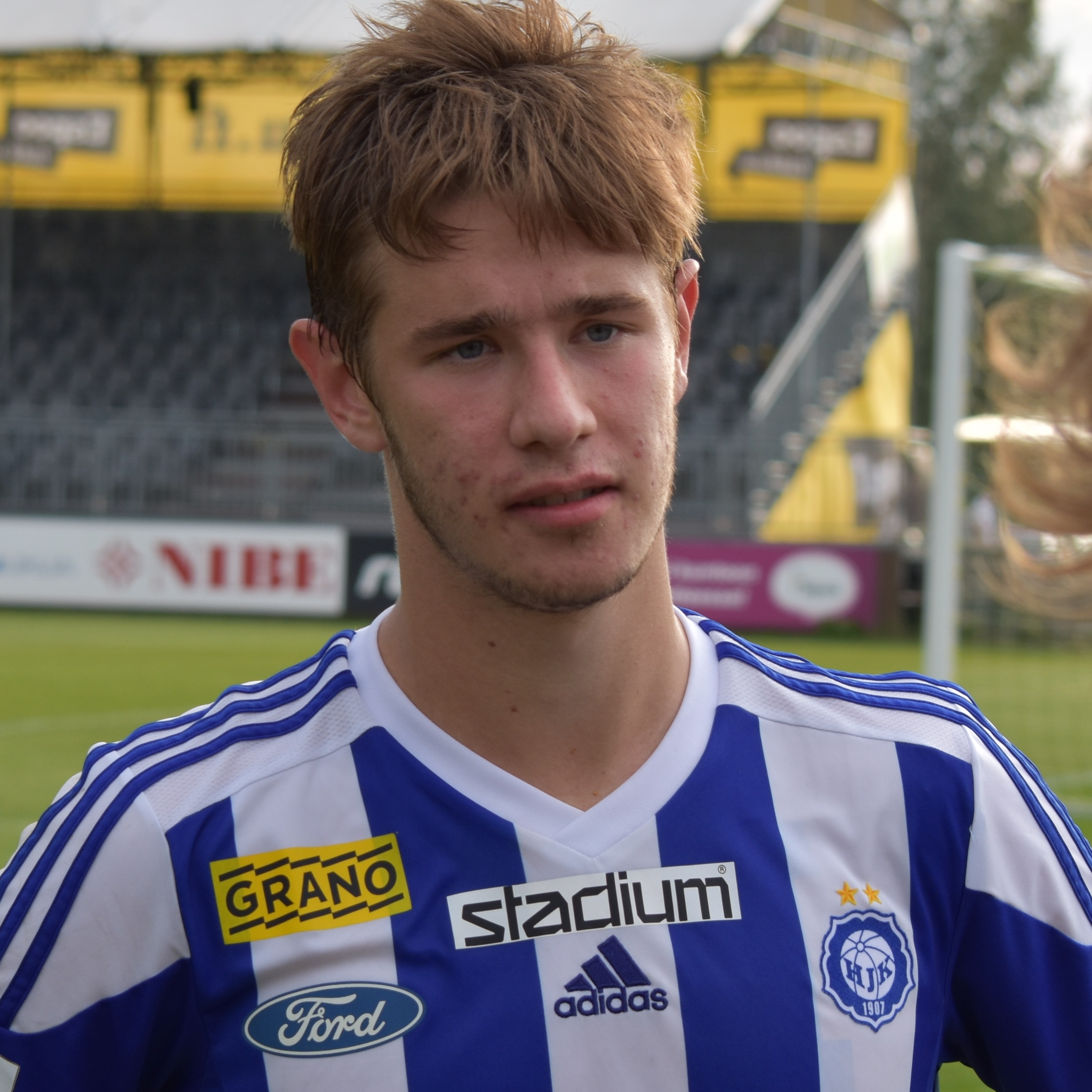 Association football player Valtteri Vesiaho (HJK)